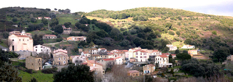 A photo of buildings with a mountain in the background.